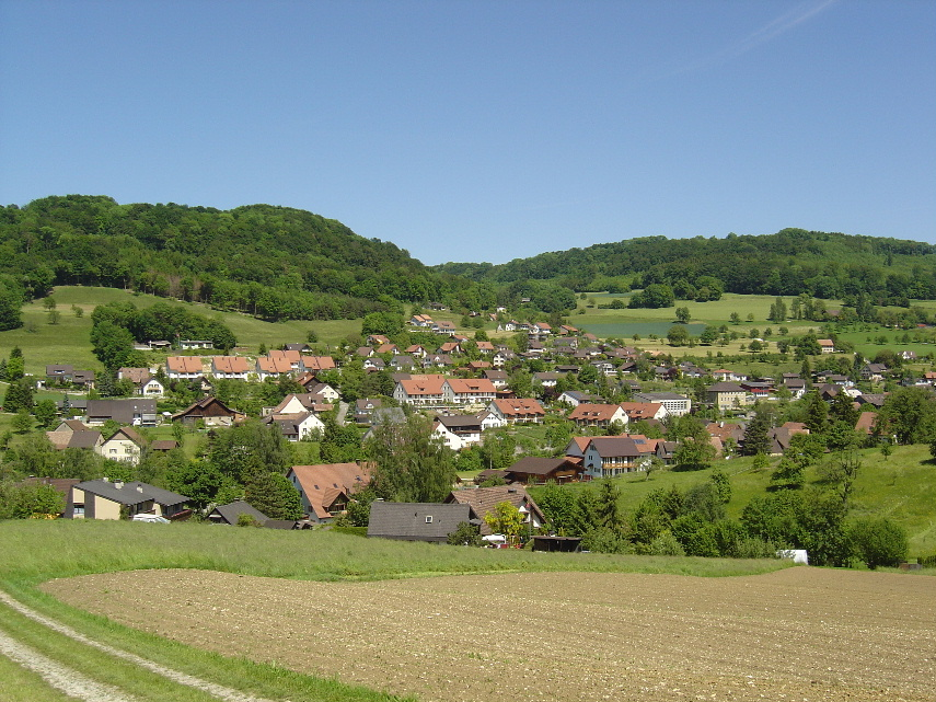 View of Zuzgen with Chriesiberg and Lohnberg in the background